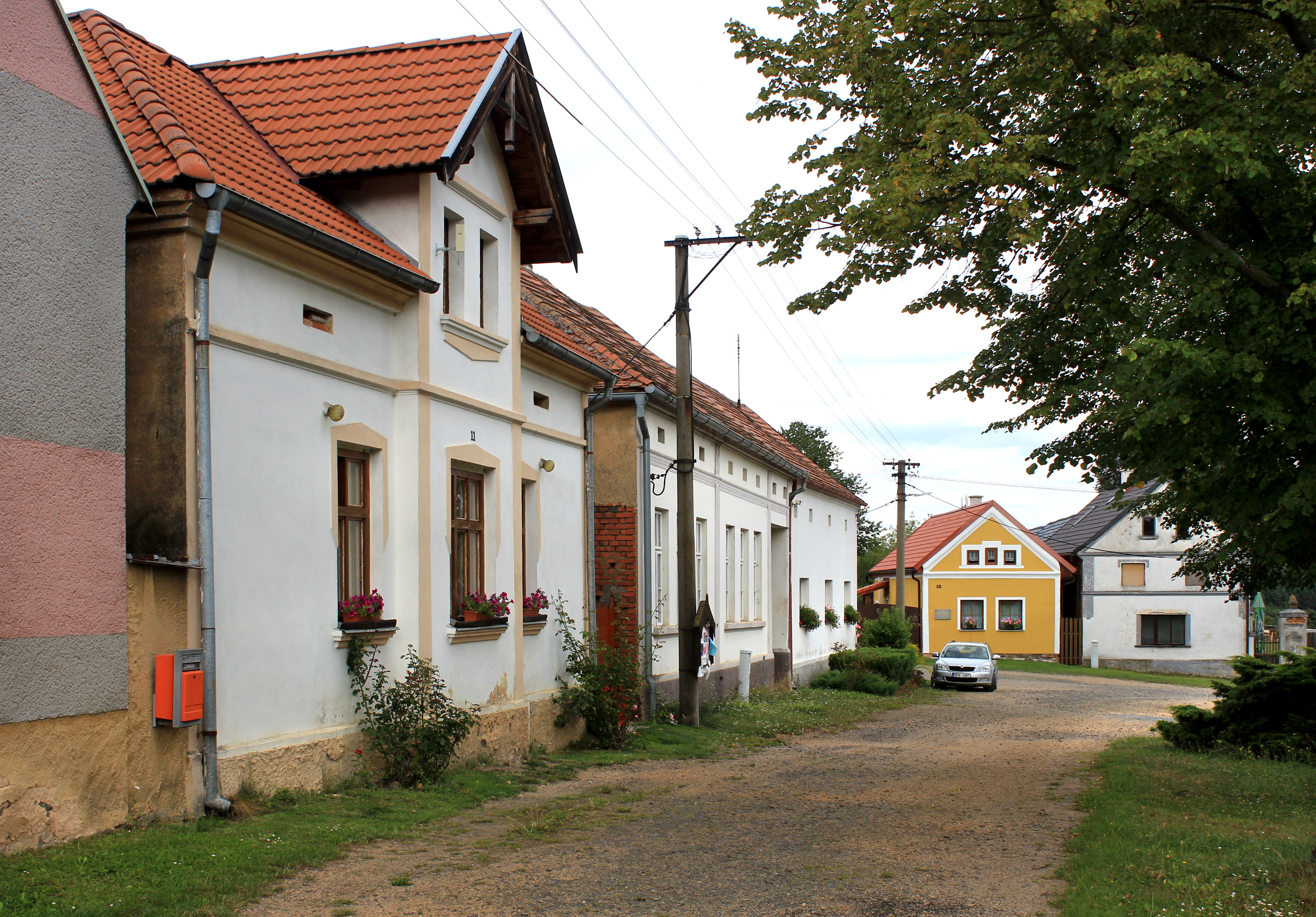 Common in Lisov, Czech Republic.